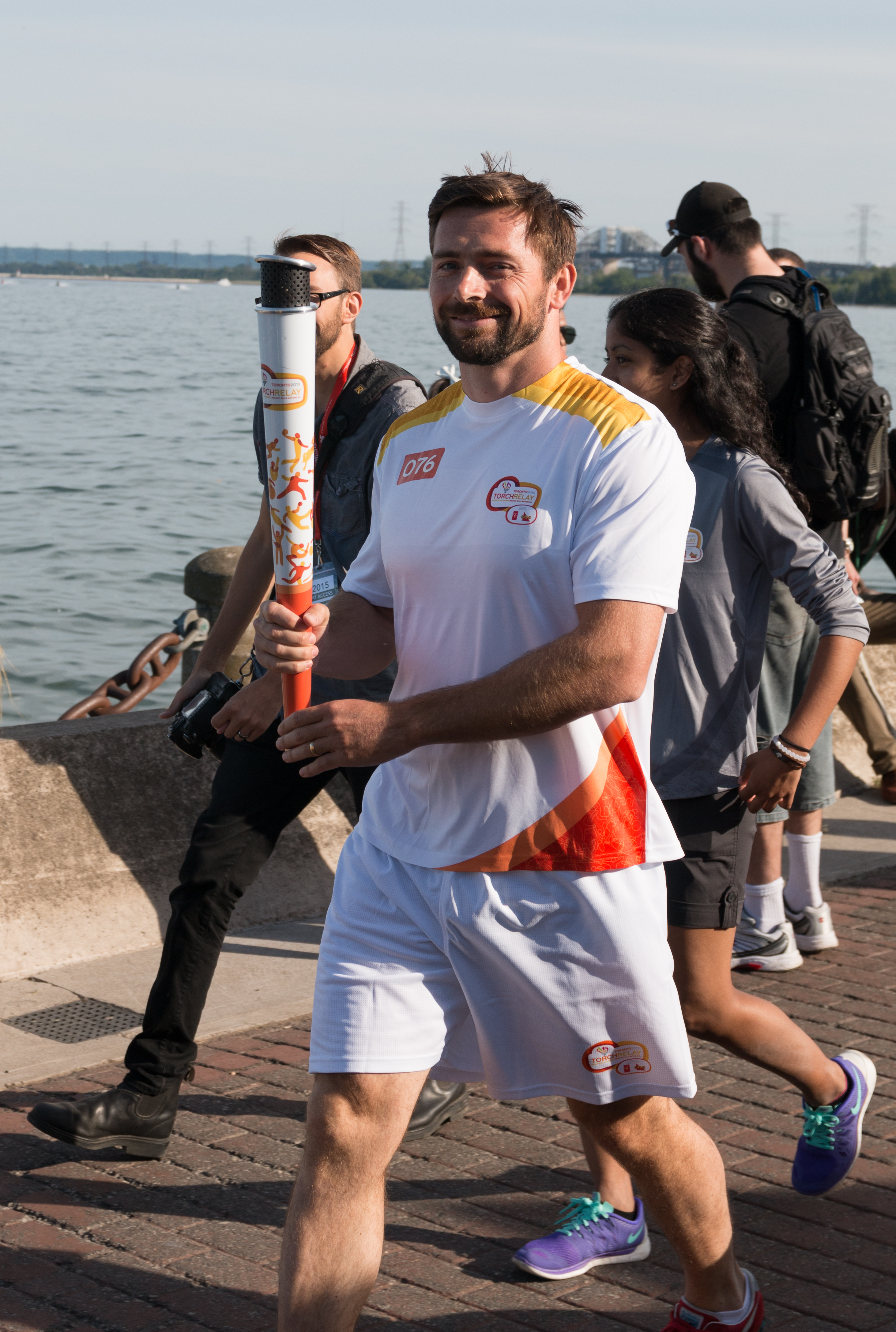 Mark Oldershaw at the Burlington Sound of Music Festival, participating as part of the PanAm Games torch relay. The torch is unlit as he was to be the next person in the relay.